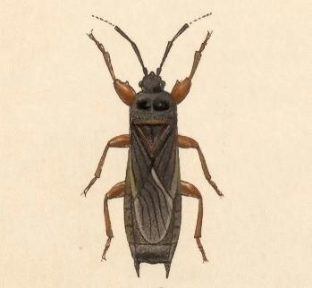 Biologia Centrali-Americana - Toonglasa forficuloides Cut-out from original (Biologia Centrali-Americana (8272543166).jpg) shown below